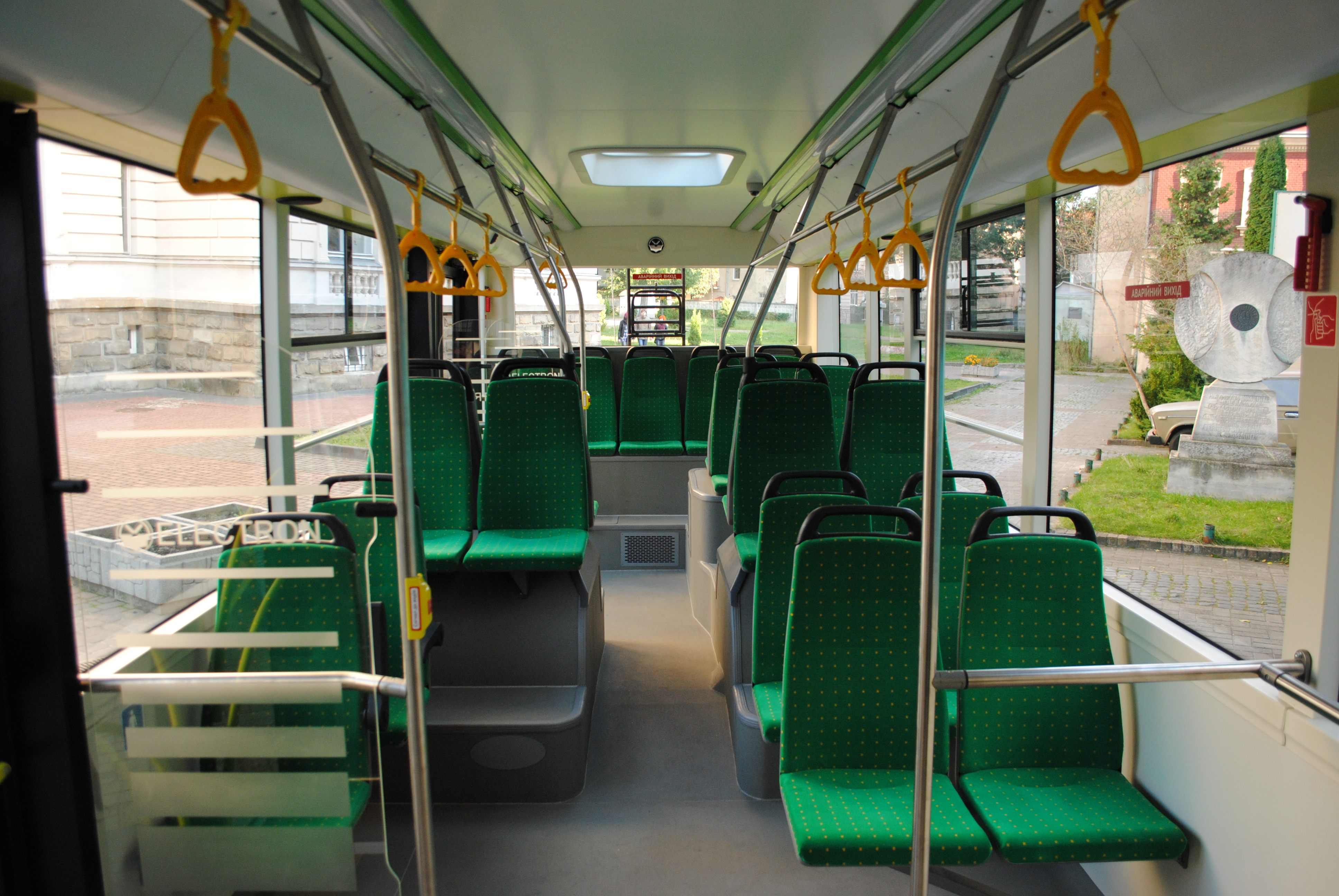 Electron T19101 trolleybus on Lvivsky Tovarovyrobnyk Expo.